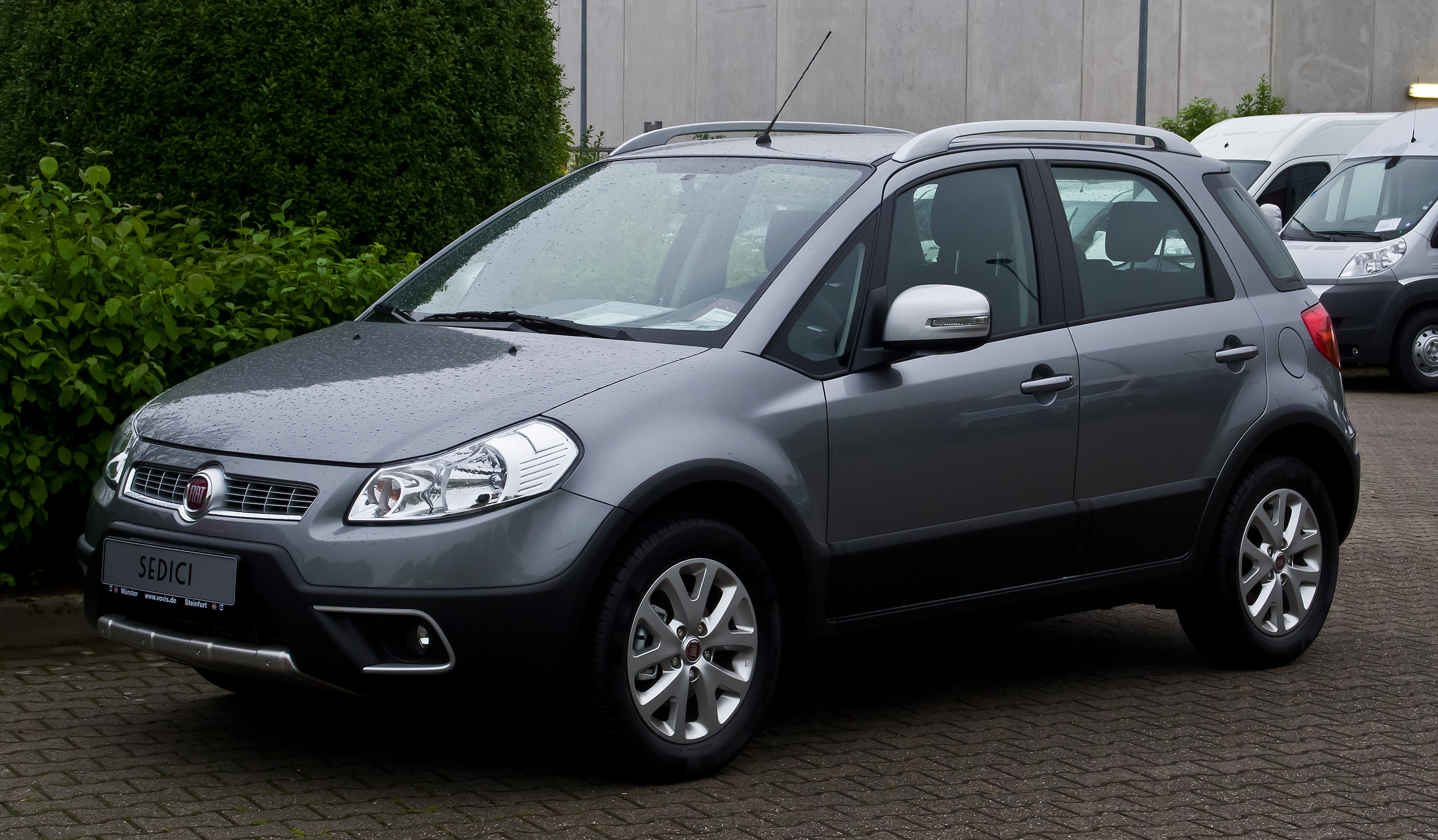 Fiat Sedici 1.6 16V Easy (2. Facelift)